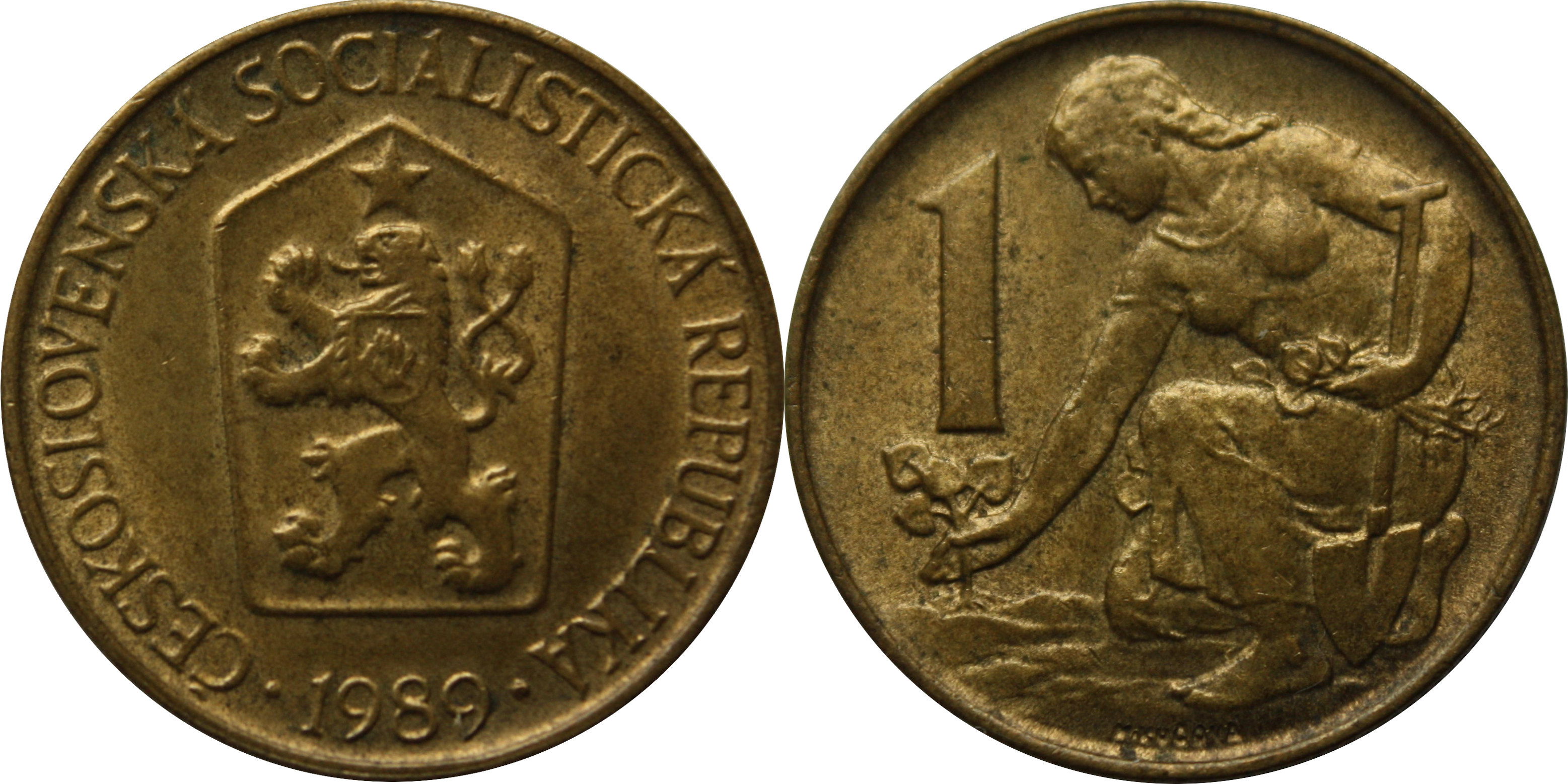 1 czechoslovak koruna, pattern from 1961. Author of reverse: Marie Uchytilová-Kučová.